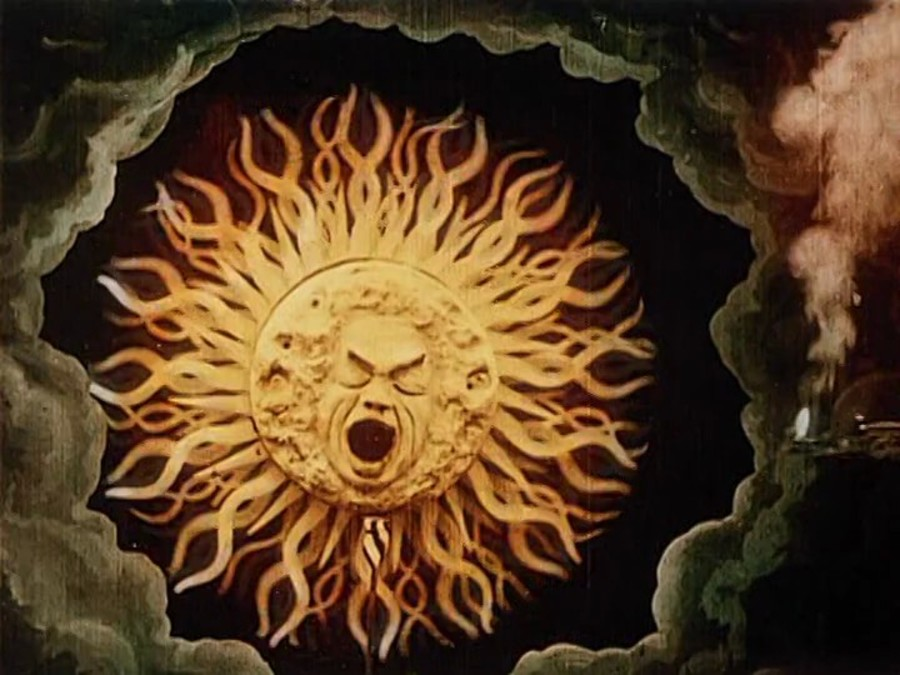 Scene from a hand-colored print of Georges Méliès's 1904 film The Impossible Voyage.